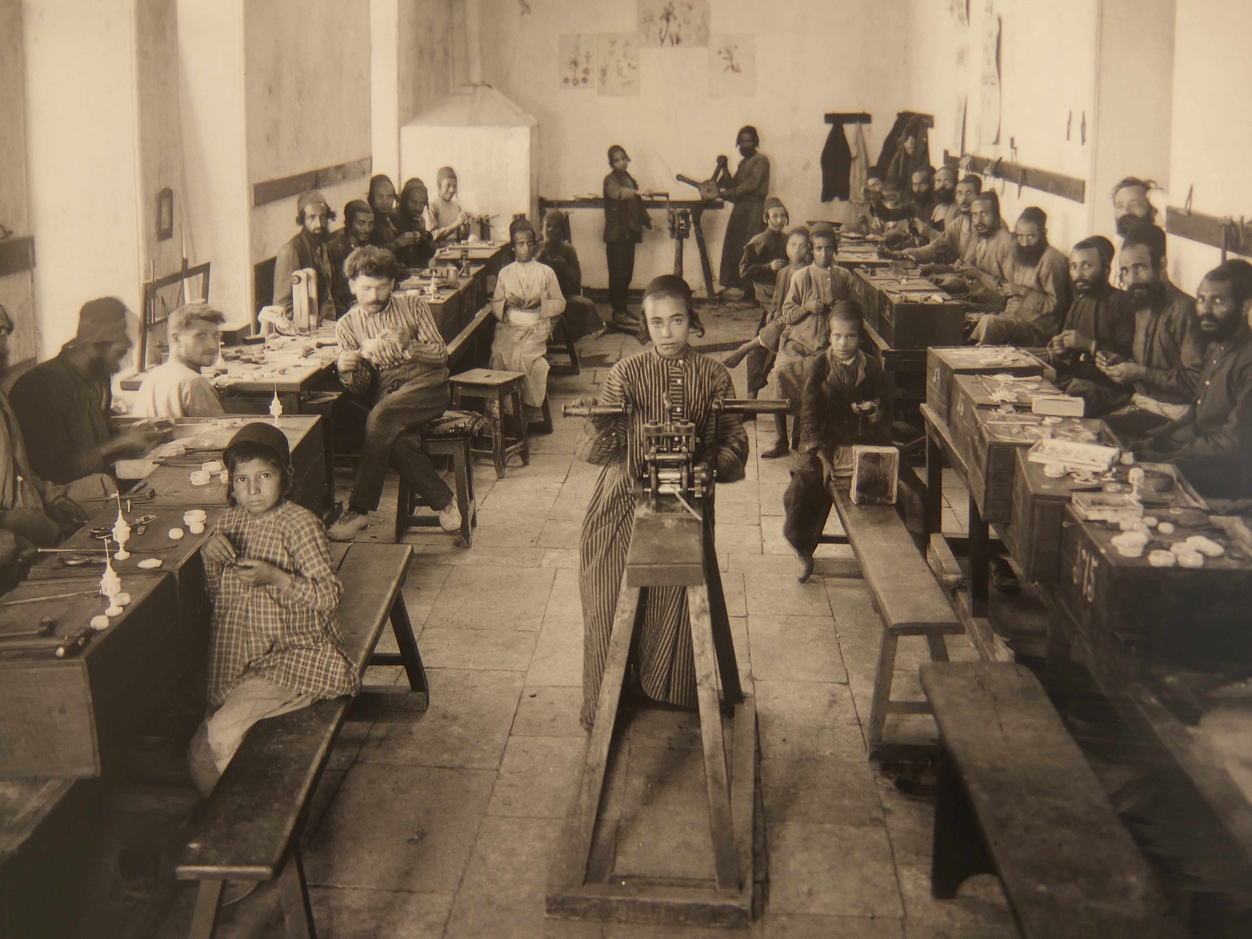 Photo of Yemenite silversmiths in the Beazlel School of Art and Craft in Jerusalem, early 20th-century (Yemenite Jewish Heritage Center)